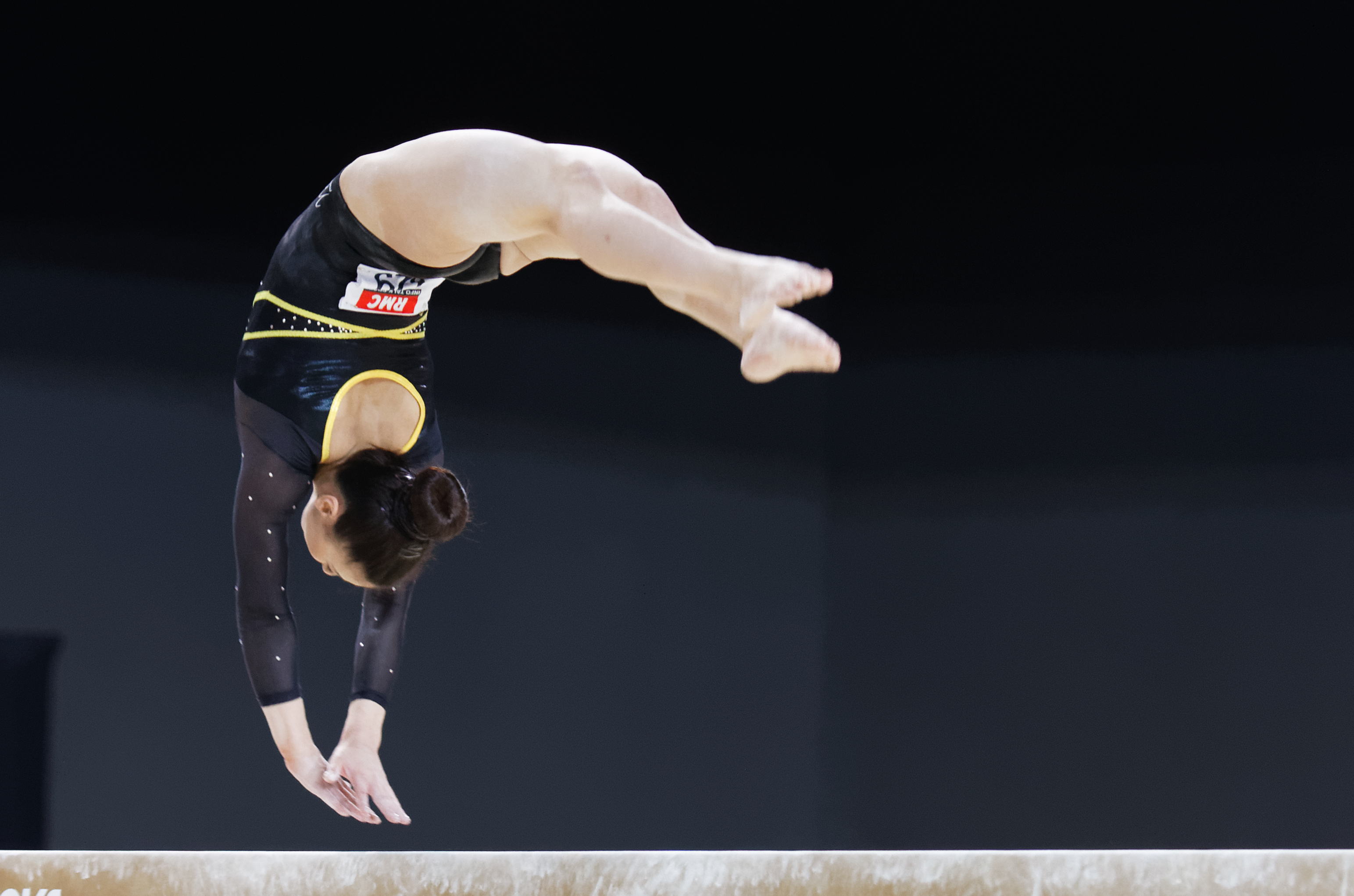 2015 European Artistic Gymnastics Championships. Bamance beam.